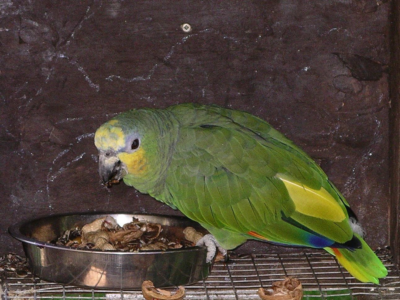 photo of an Orange-winged Amazon Parrot Amazona amazonica in Tropical Birdland, Leicestershire, England.